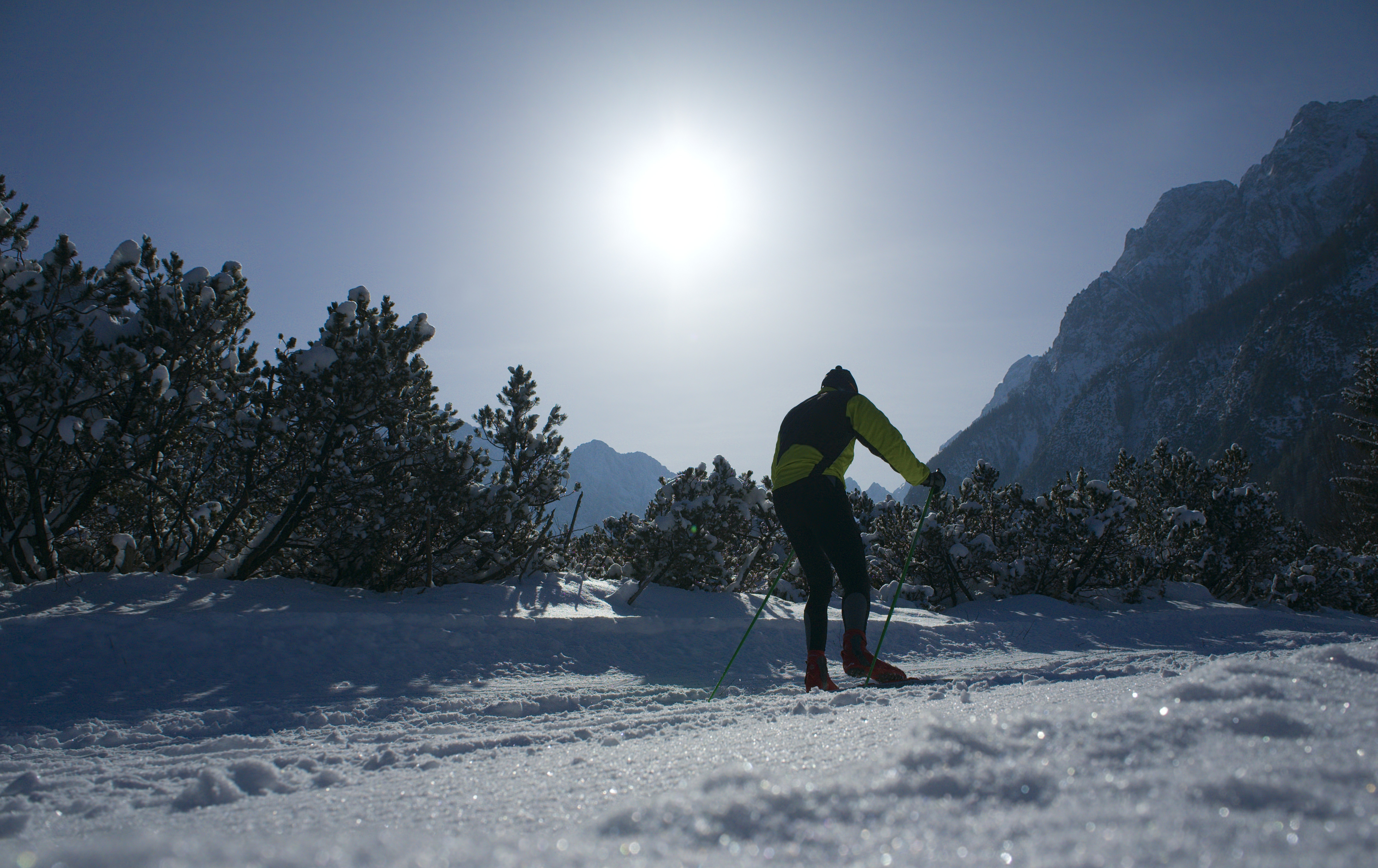 Cross-country skiing in Alps.